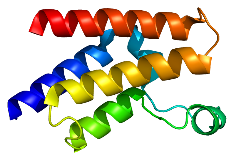 Structure of the GCN5L2 protein. Based on PyMOL rendering of PDB 1f68.